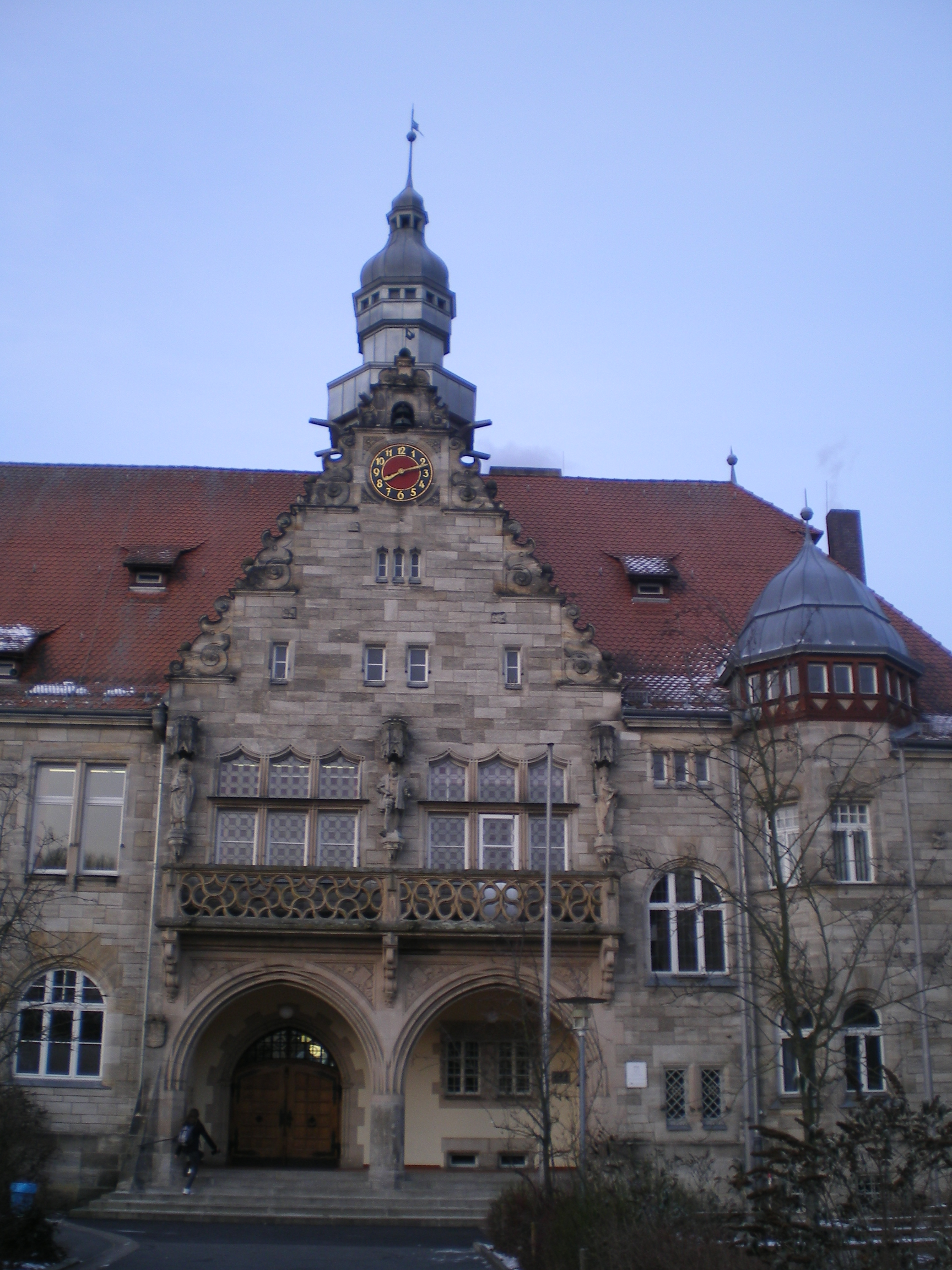 Johann Gottfried Herder grammar school in Forchheim/Upper Franconia